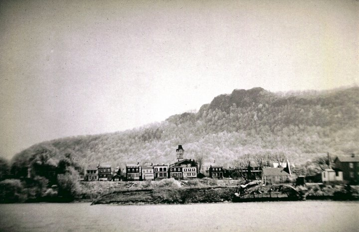 Baptist Calvary Church clock tower visible at the center of the image. Bowline Pond in the foreground. High Tor peak, of the Palisades Escarpment, in the background.